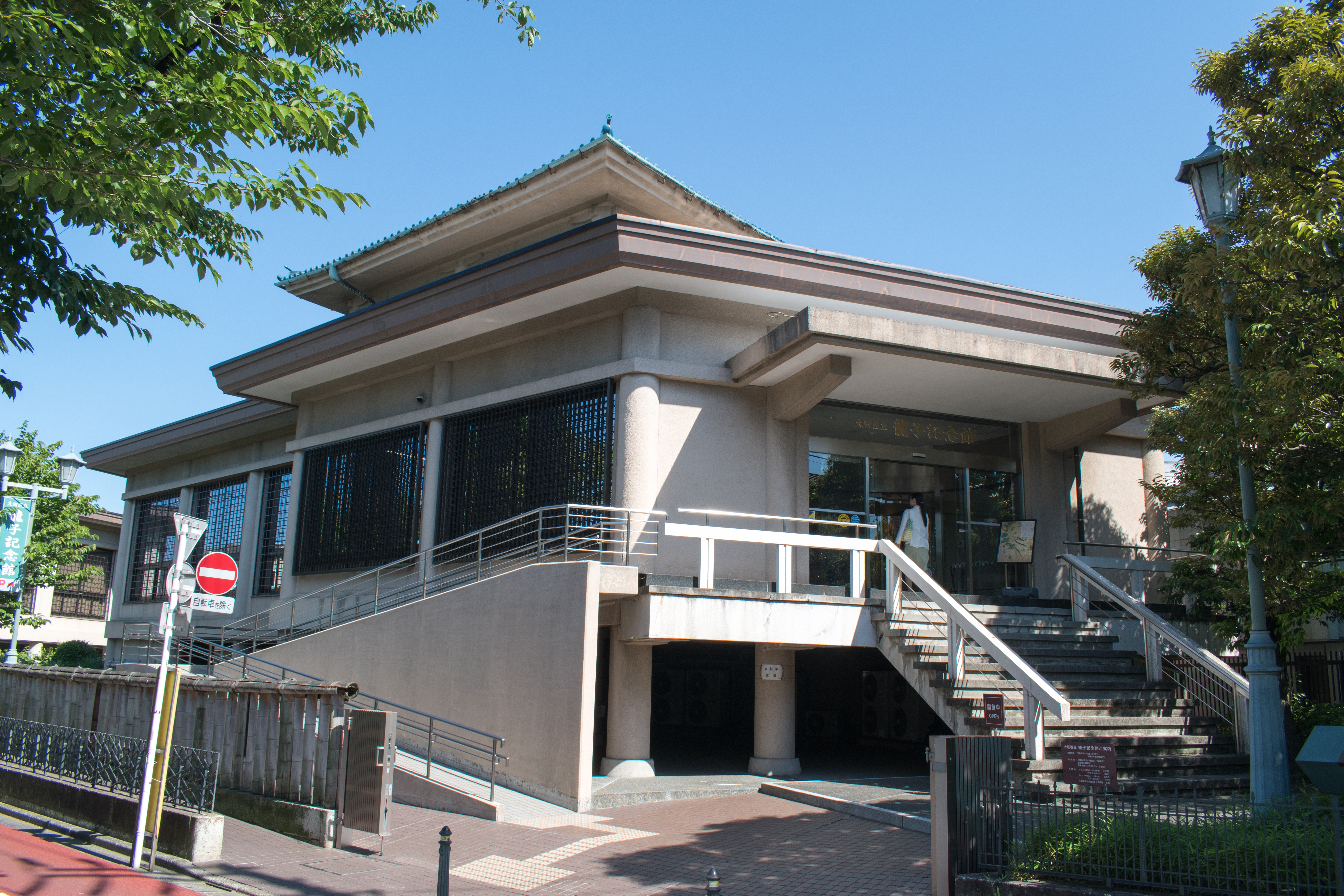 Ōta Municipal Ryūshi Memorial Hall, an art museum in Ōta, Tokyo, Japan.